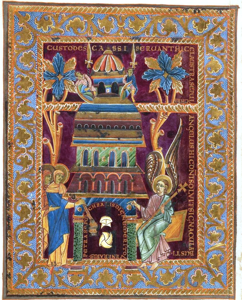 Sacramentary of king Henry II [1002-14] - München BSB Clm 4456 Seite 33c: Aedicula of The Holy Sepulchre